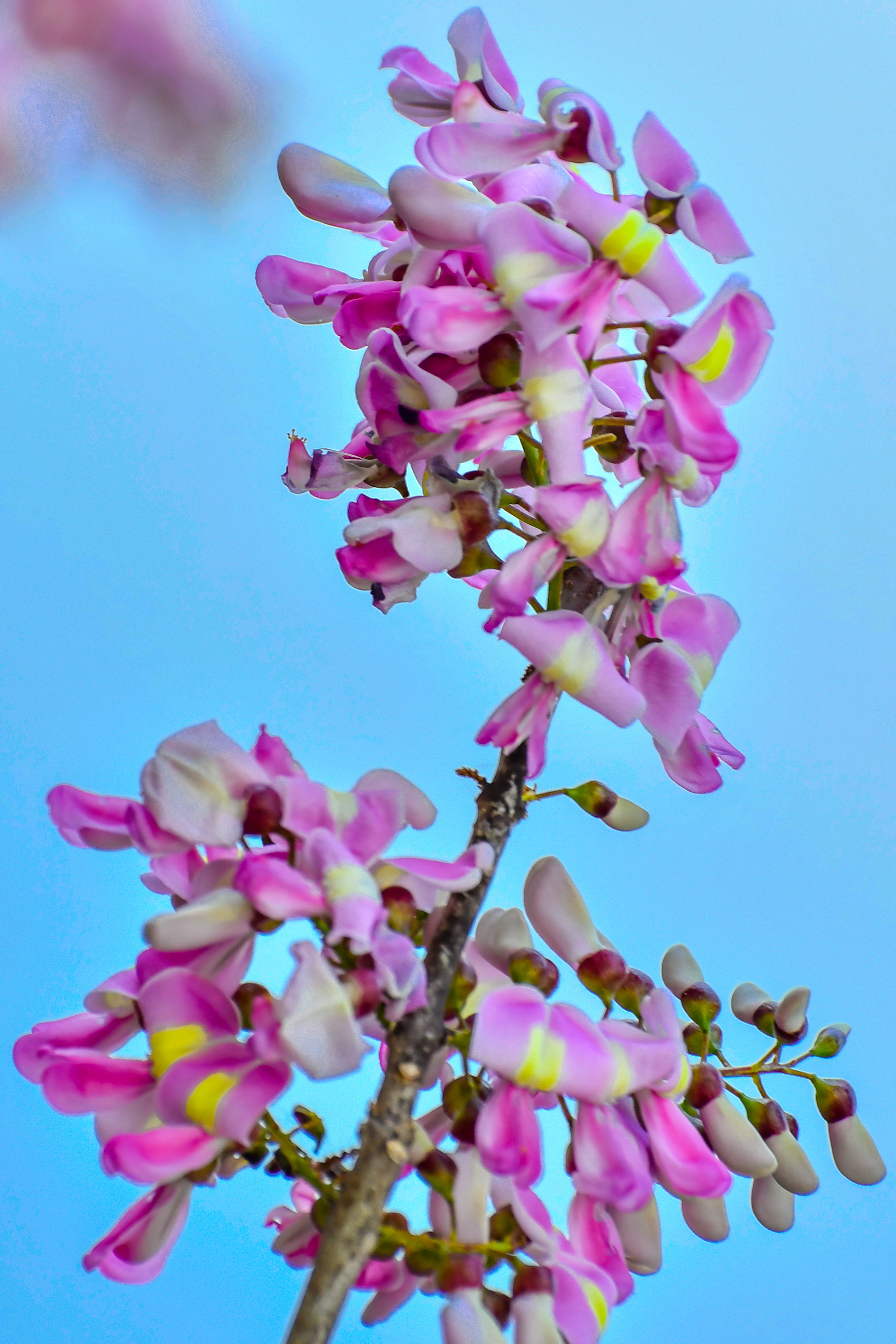 Gliricidia sepium, often simply referred to as Gliricidia (common names: quickstick